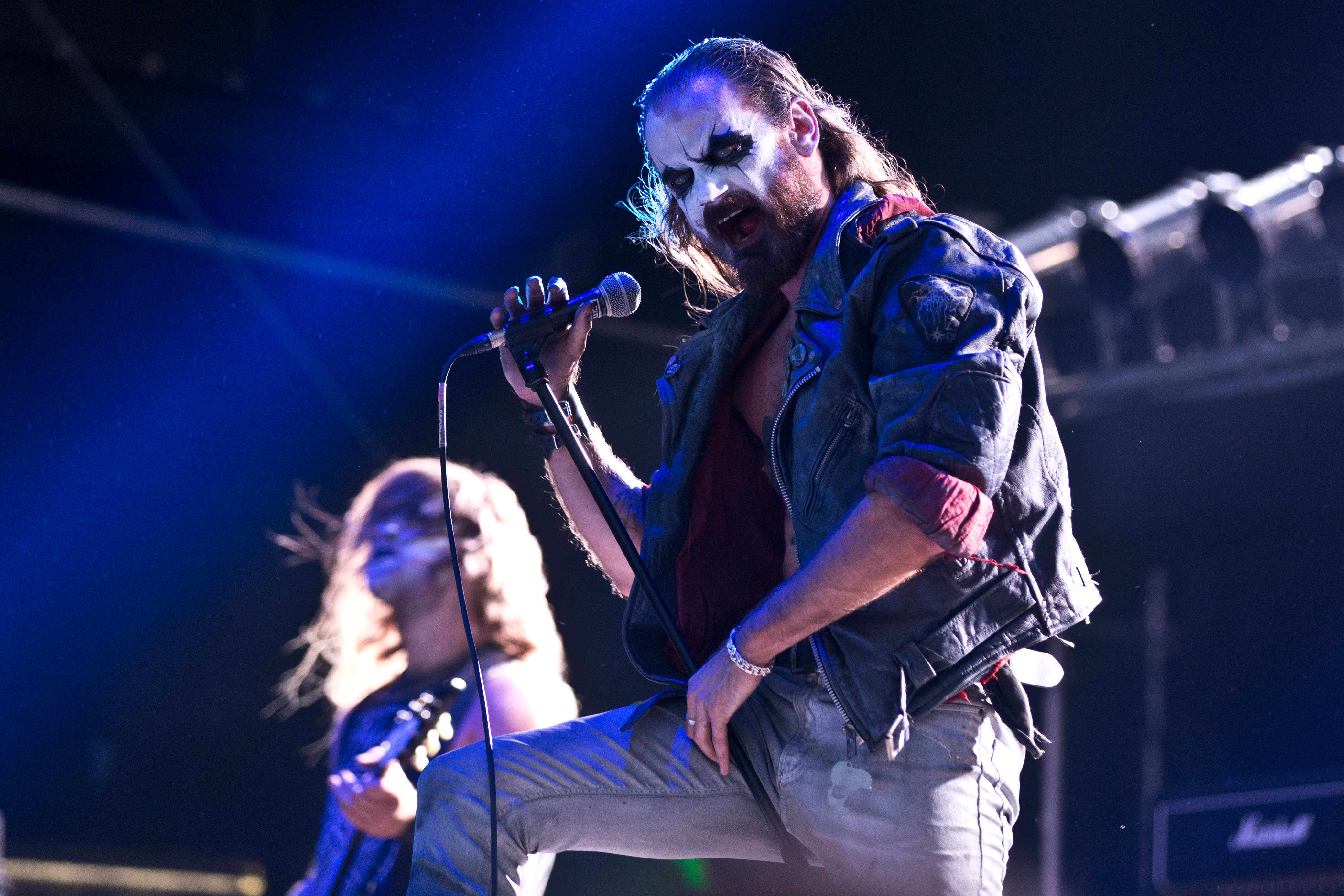 The Norwegian extreme metal band Taake at the Party.San Metal Open Air 2016 in Obermehler-Schlotheim/Germany.